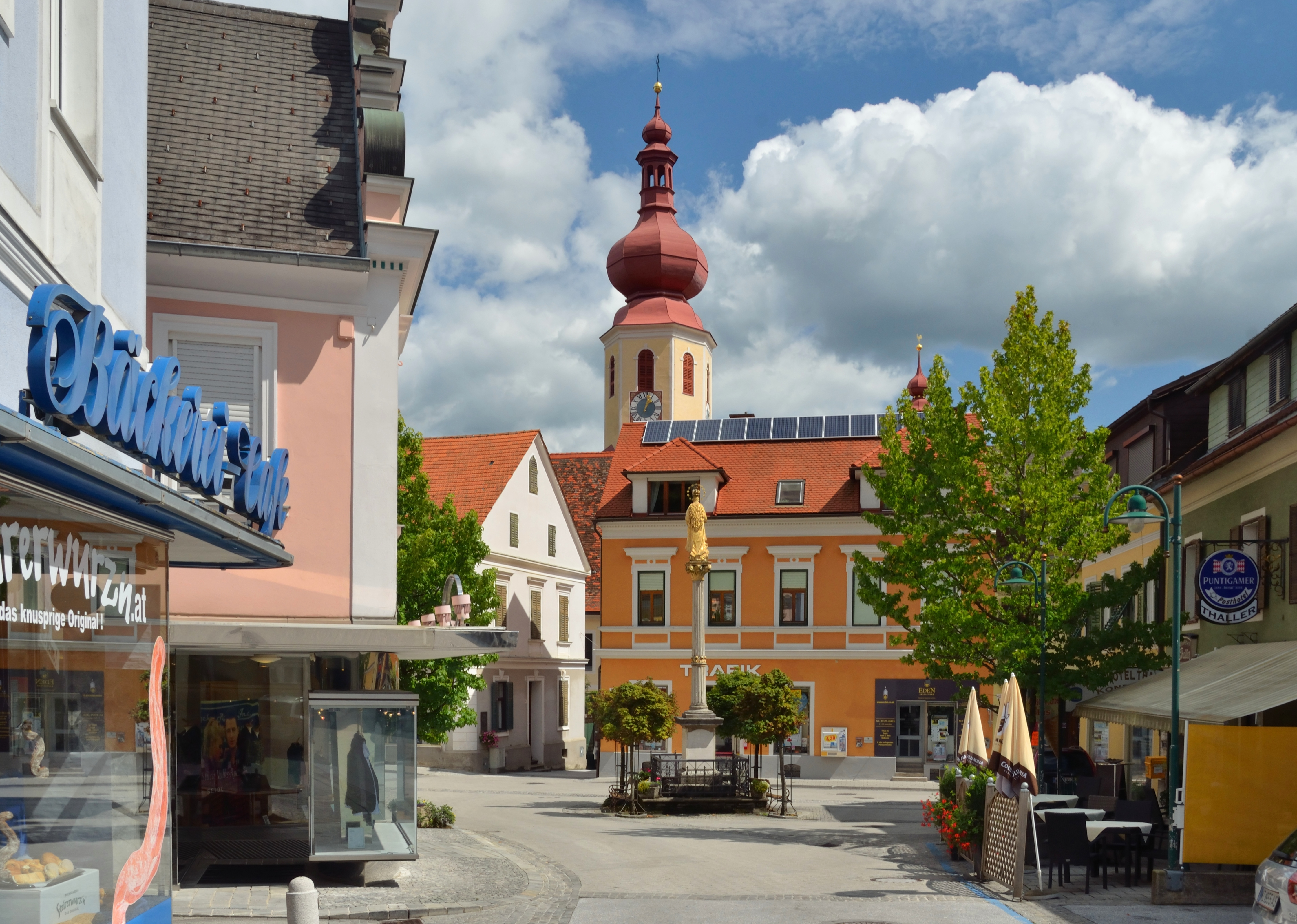 Main square of Anger, Styria, with the Maria column and the parish church Saint Andrew.